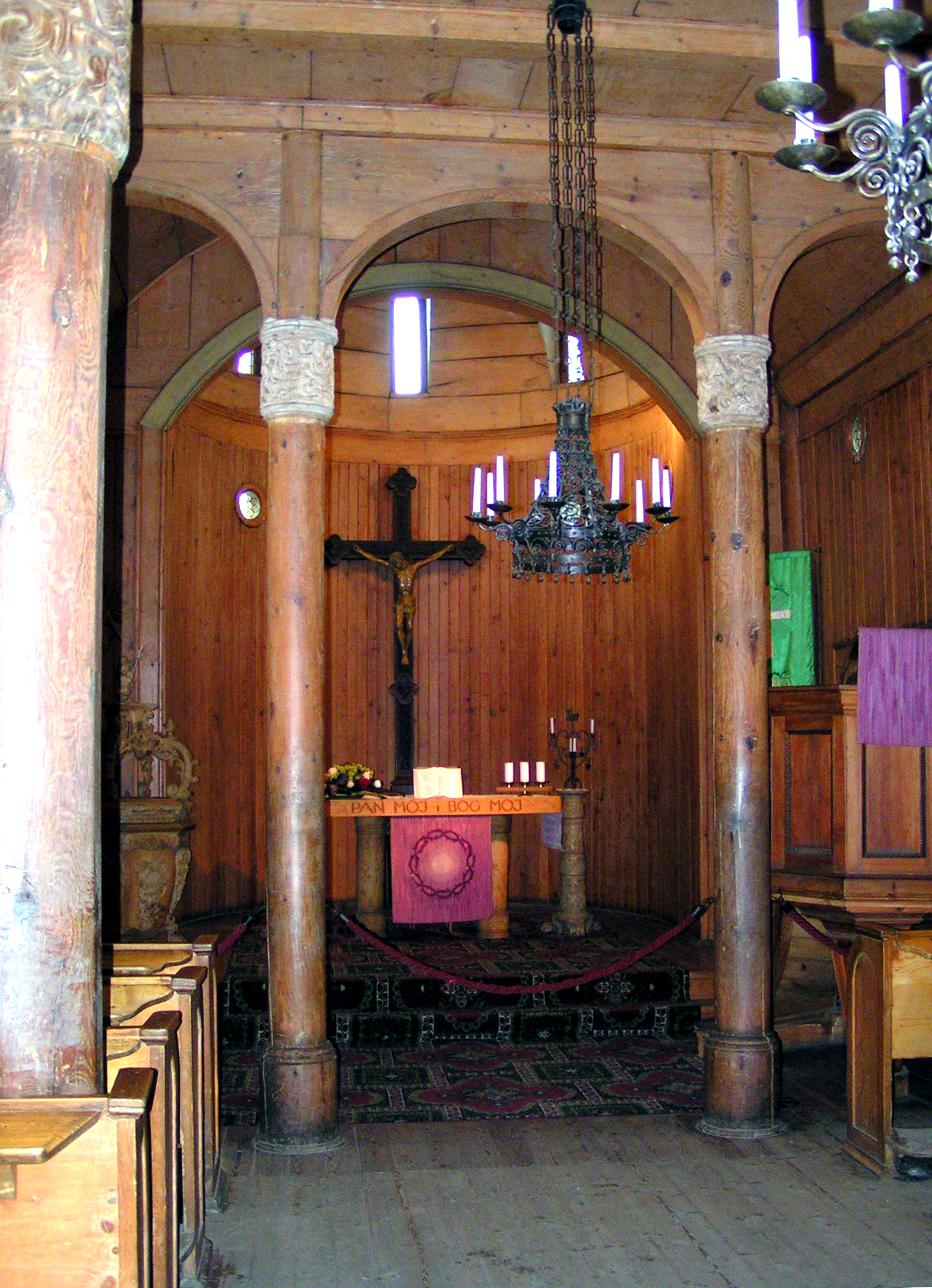 Church Wang in Karpacz, Poland